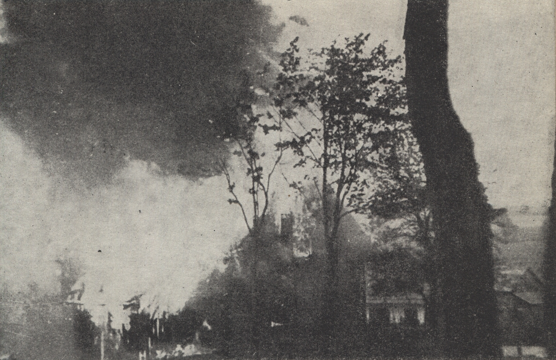 Polish village Michniów burned by German gendarmerie. On 12-13 July 1943 German occupants completely destroyed Michniów and massacred 204 its inhabitants.